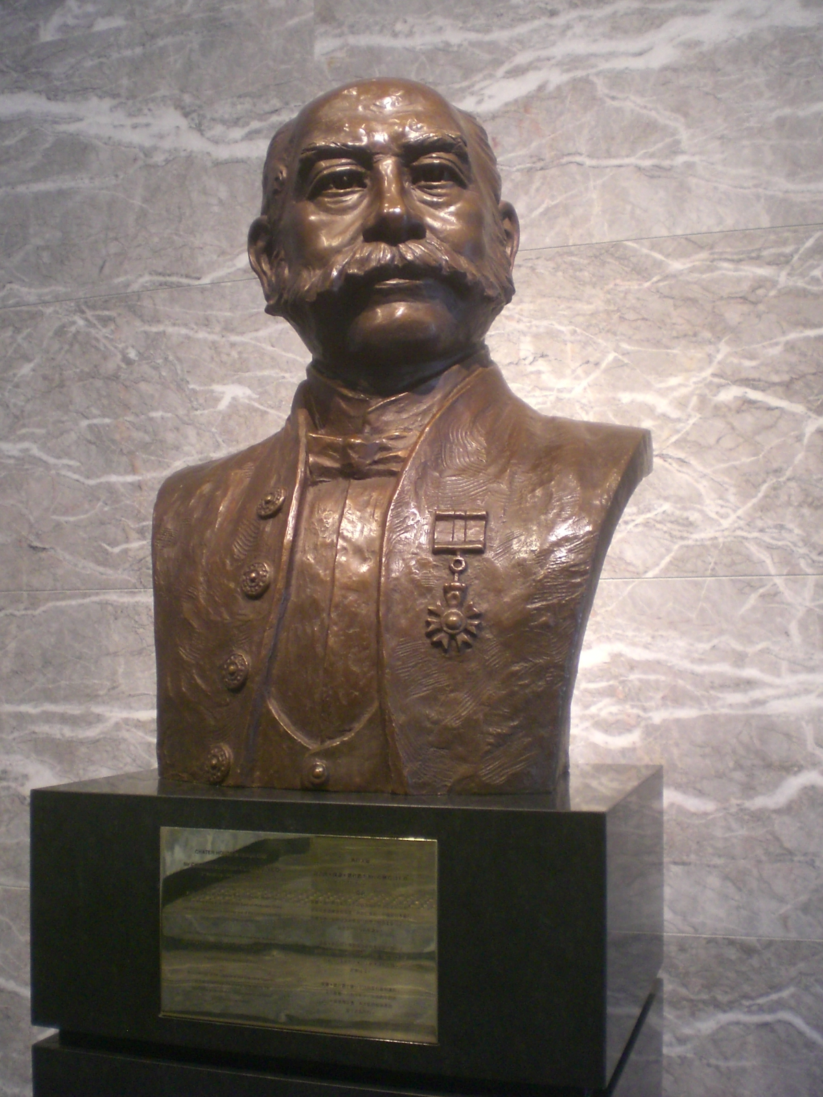 HK Central Chater House, Sir Catchick Paul Chater